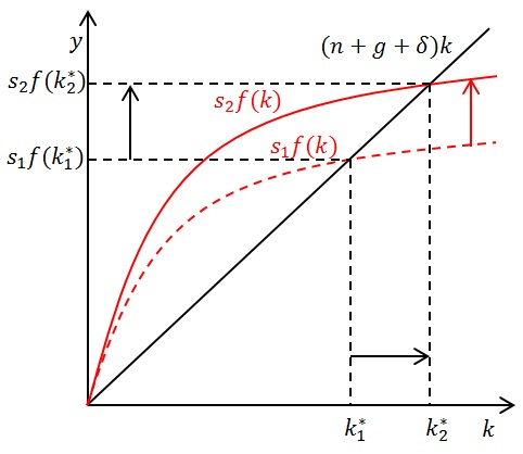 Solow model, savings rate change